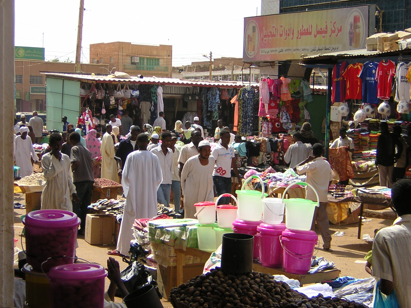 Market in Omdurman, Sudan.